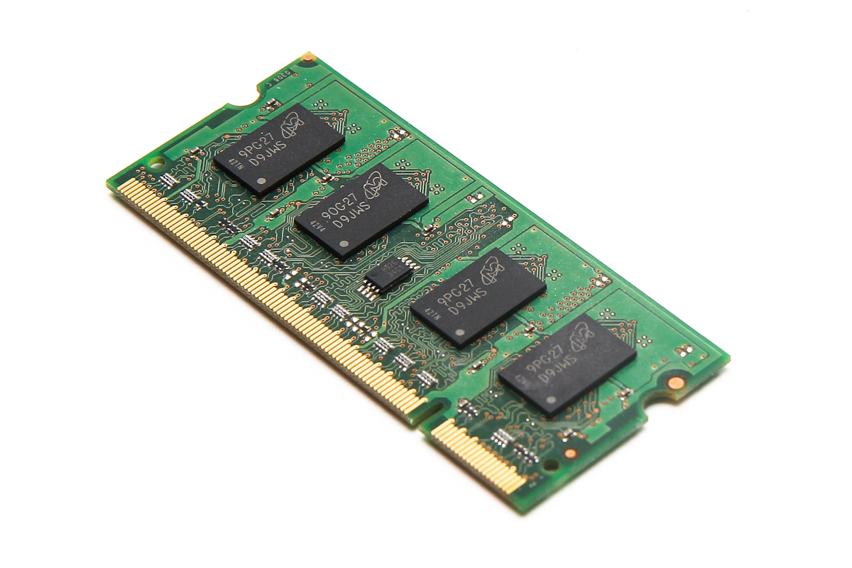 1GB SO-DIMM DDR2 memory module